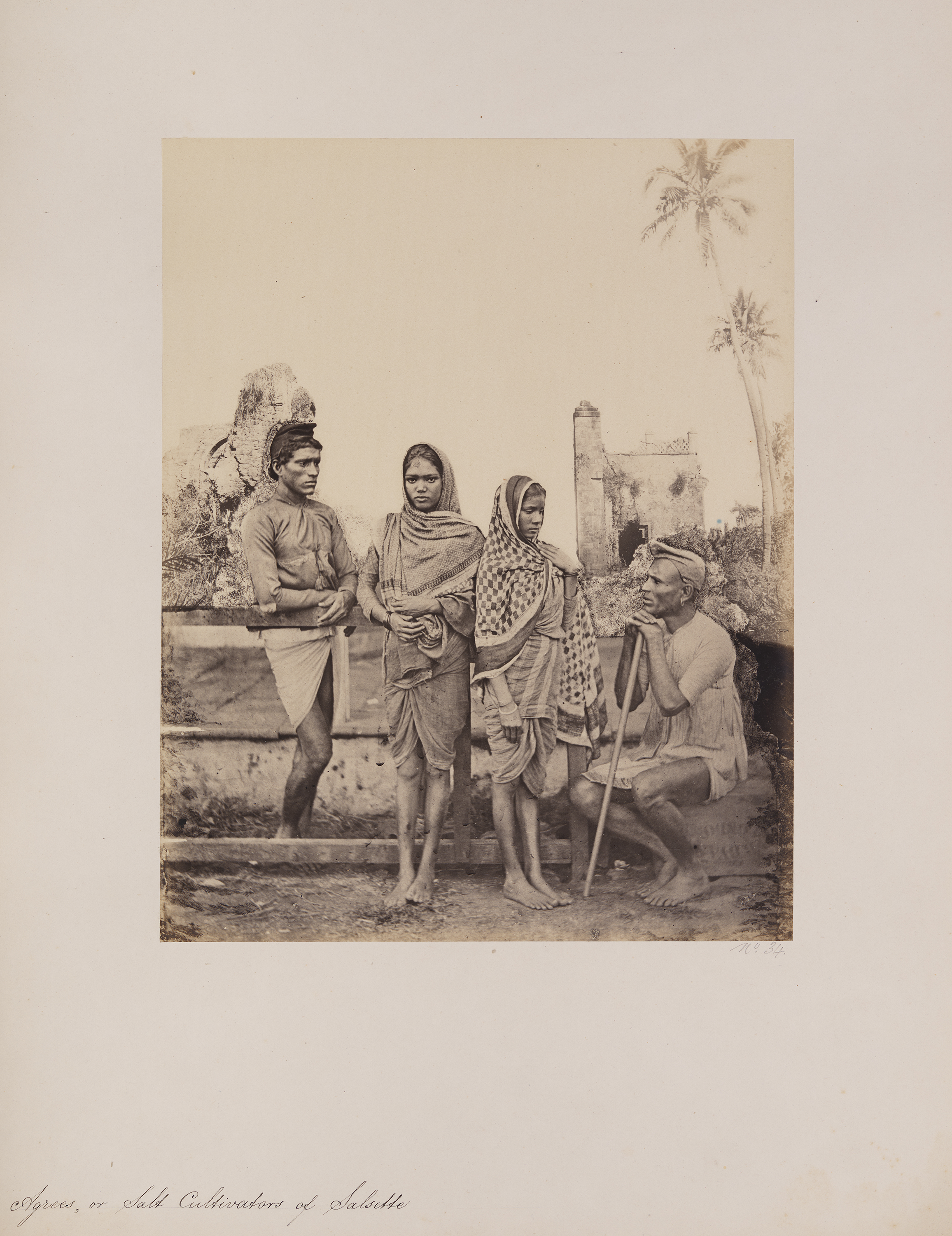 Title: Agrees, or Salt Cultivators of Salsette Alternative Title: [Agris, or Salt Cultivators of Salsette Island] Creator: Johnson, William Date: ca. 1855-1862 Part Of: Photographs of Western India Series: Photographs of Western India. Volume I. Costumes and Characters. Place: India Physical Description: 1 photographic print: albumen; 26 x 20 cm on 42 x 35 cm mount File: vault_ag2002_1407x_1_034_agrees_opt.jpg Rights: Please cite Southern Methodist University, Central University Libraries, DeGolyer Library when using this image file. A high-quality version of this file may be obtained for a fee by contacting . For more information, see: View Europe, India, and Asia: Photographs, Manuscripts, and Imprints